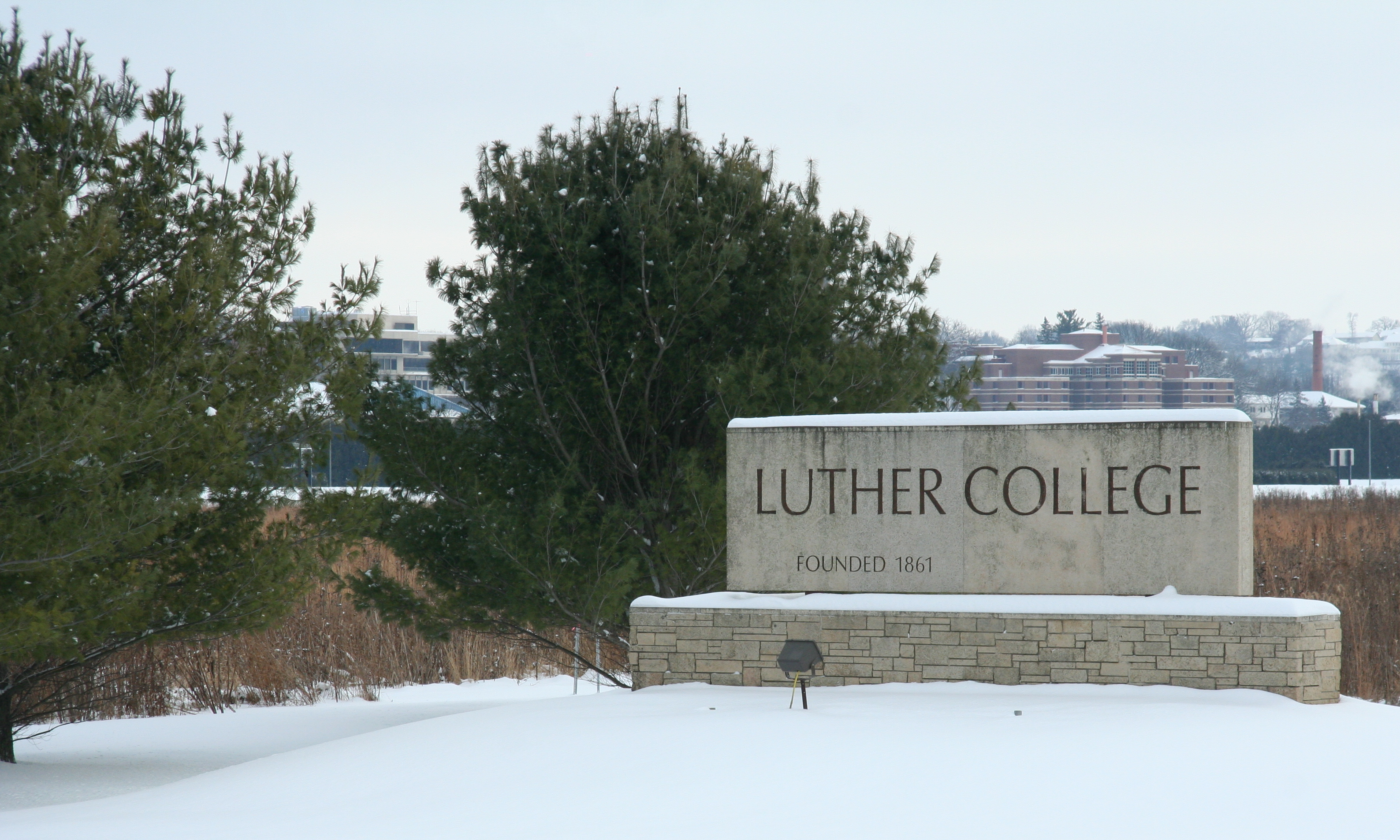 Luther College seen from U.S. Highway 52 north of Decorah, Iowa